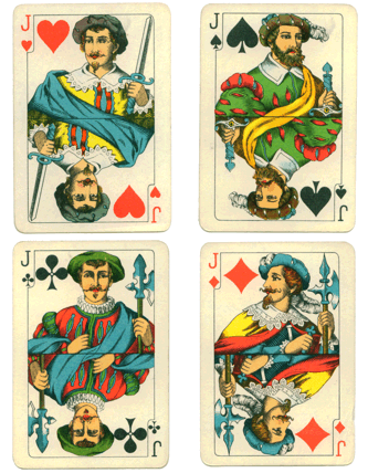 Four jacks in a popular style of Austrian Piatnik (modified Rhine suite, popular in Poland since at least 1920s).